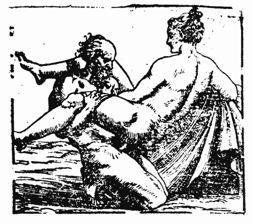 I modi. Counterfeit woodcut inspired by raimondi engraving 1527